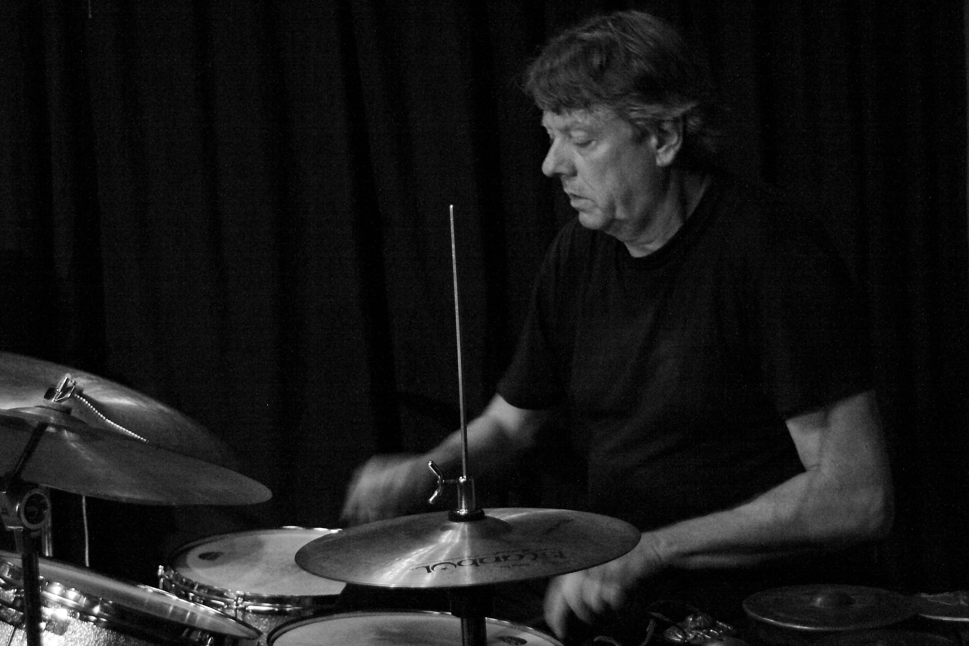 Martin Blume in concert with Speakeasy (Martin Blume, Thomas Lehn, Phil Minton & Ute Wassermann) at Club W71, Weikersheim.